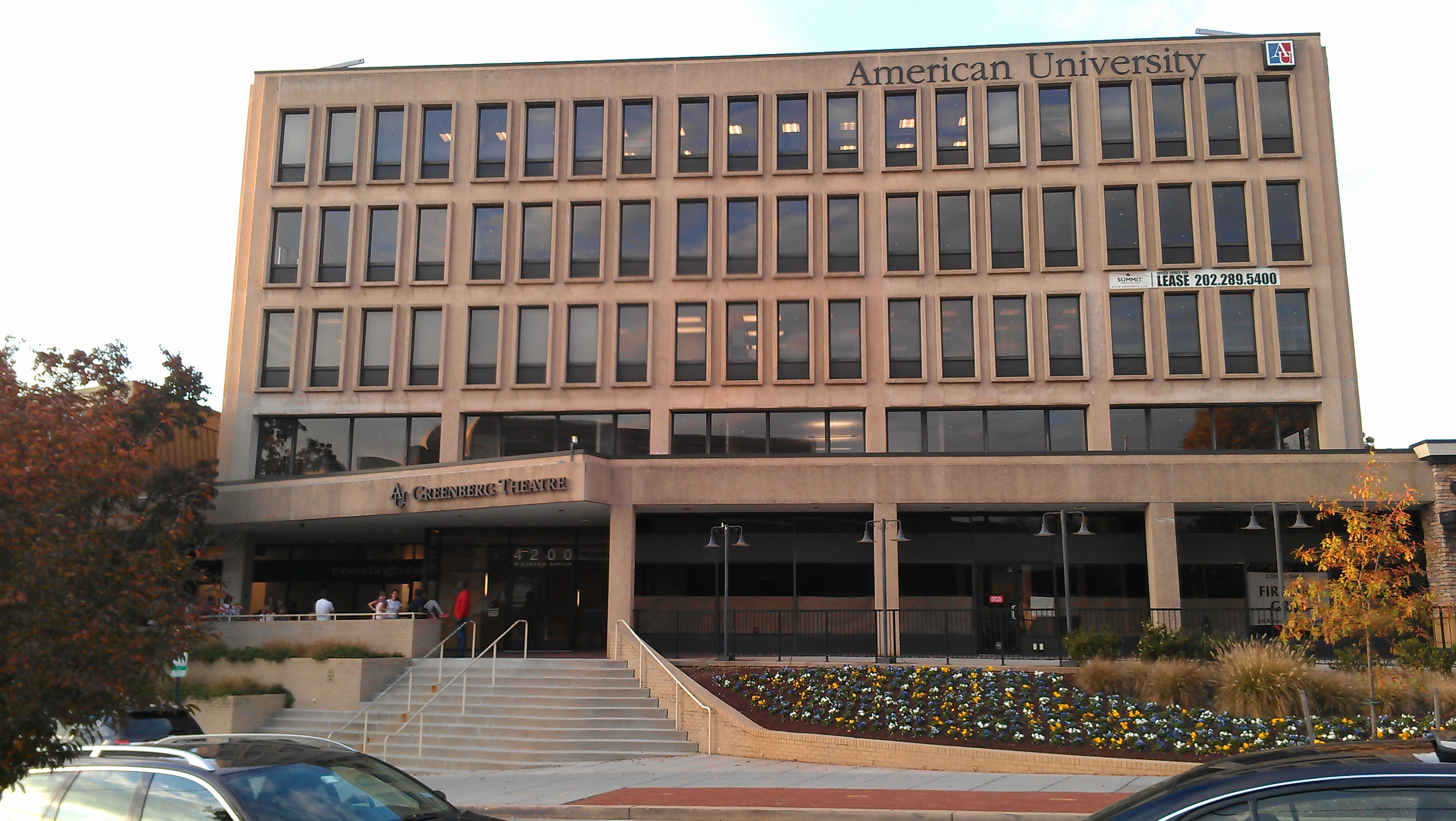 A view of the Harold and Sylvia Greenberg Theatre taken from Van Ness Street in Washington, D.C.